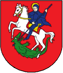 Shield of the municipality of Liddes, Canton of Valais